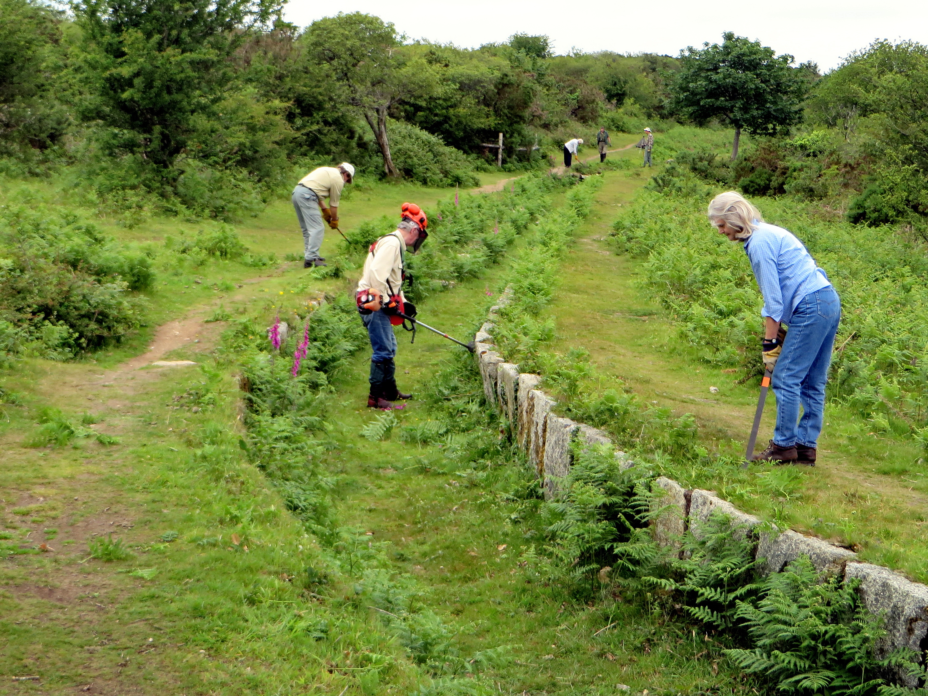 Cutting bracken in Drake's Plymouth Leat